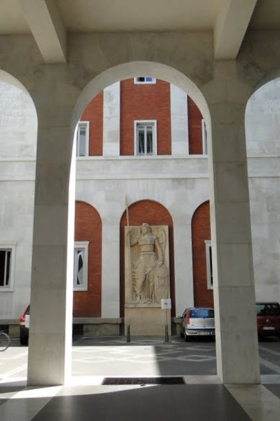 University entrance, Padua